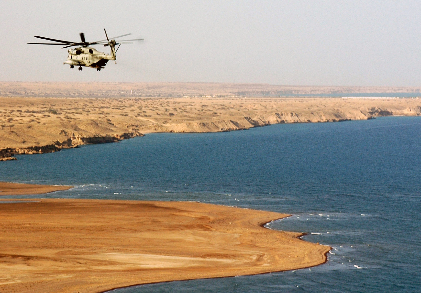 DJIBOUTI (July 29, 2007) - A CH-53E Super Stallion, attached to Marine Heavy Helicopter Squadron (HMH) 464, flies near the coast of Djibouti. HMH-464, stationed out of Marine Corps Air Station New River, N.C., is deployed to Camp Lemonier, Djibouti. U.S. Navy photo by Mass Communication Specialist 2nd Class Regina L. Brown (RELEASED)